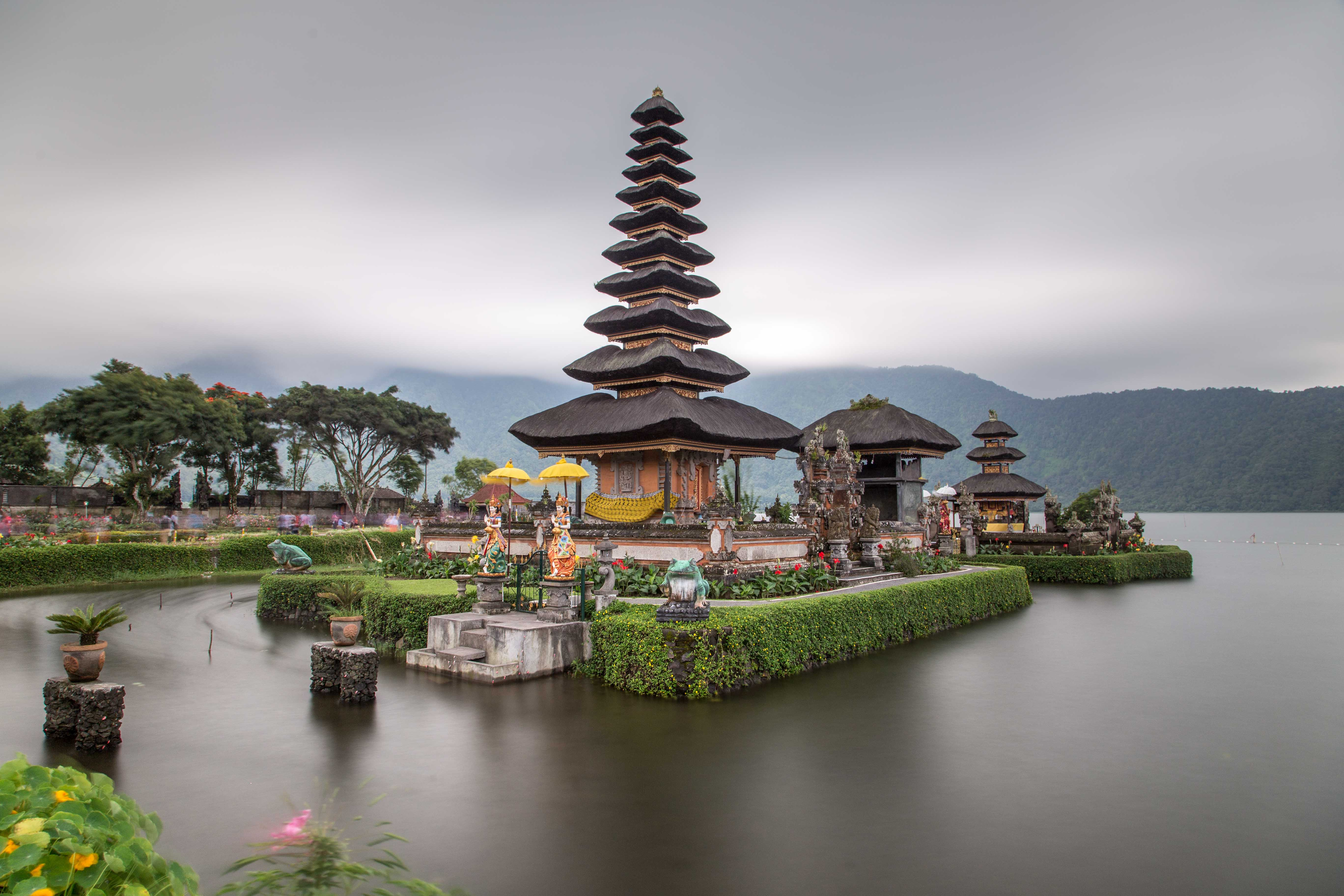 Pura Bratan Water Temple in Bali, Indonesia.